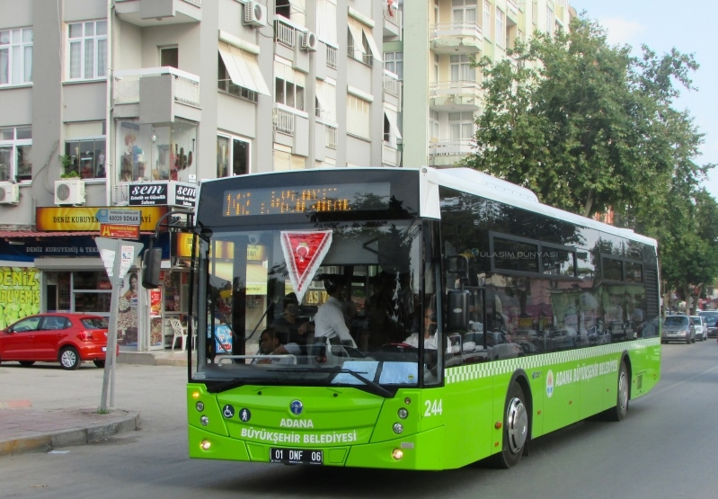 People Bus (Coach Service) on the headway.